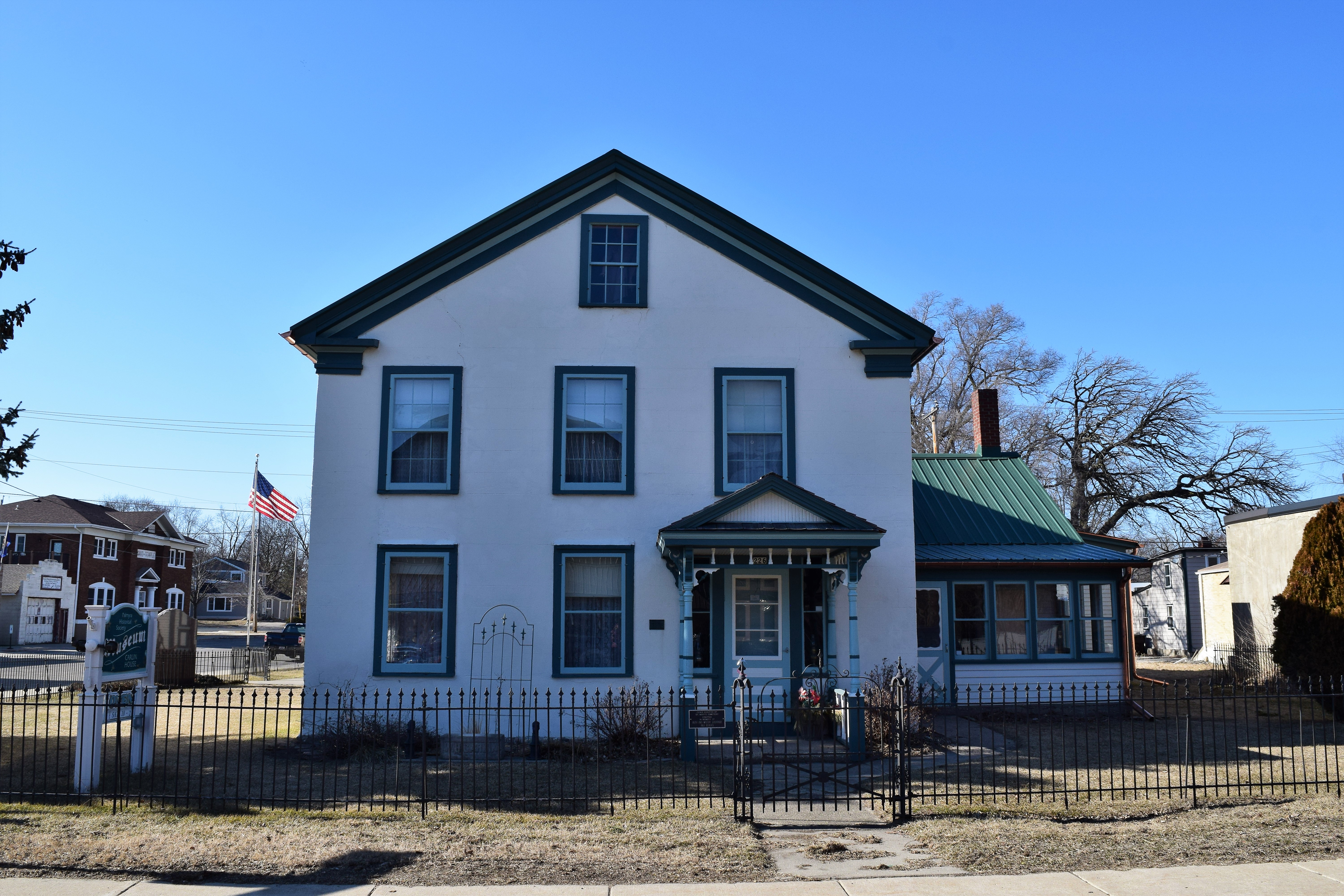 The Monroe McKenzie House, located at 226 Main St. in Palmyra, Wisconsin. The house, which is now a local museum, is listed on the National Register of Historic Places.